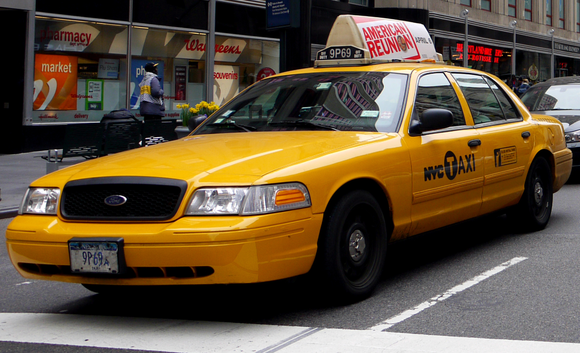 5th Avenue, Empire State Building block.